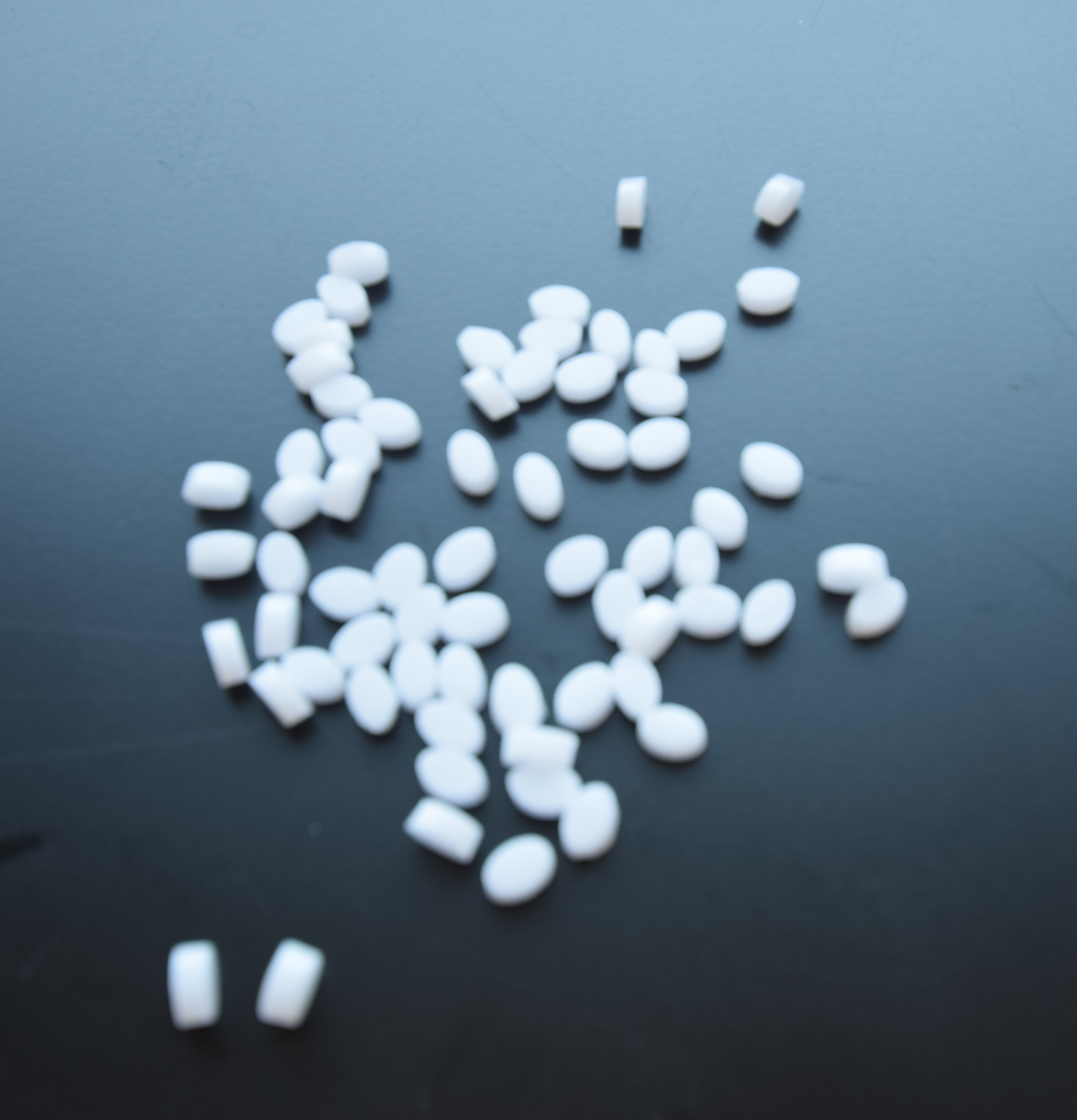 The photo is of white plastic beads.